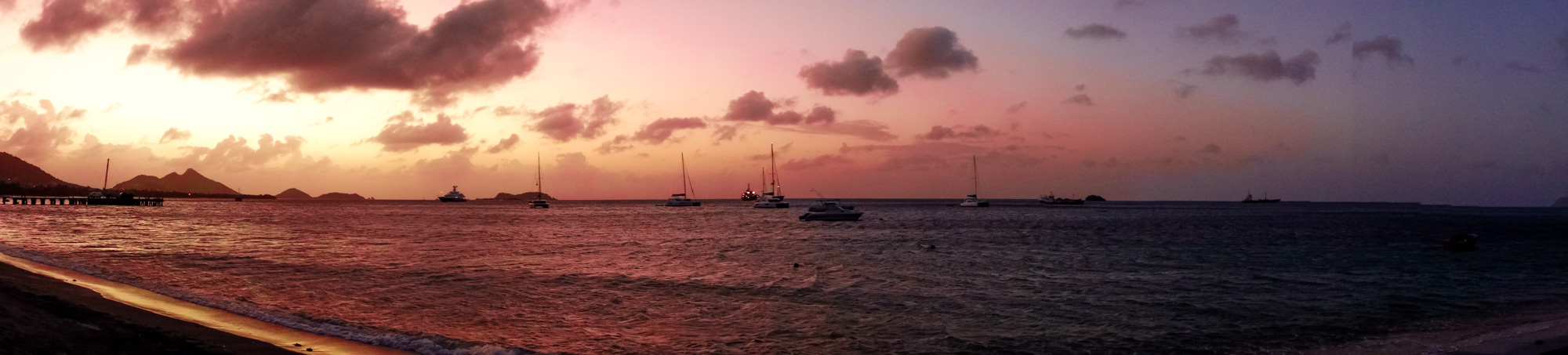 Sunset over Hillsborough Bay, Carriacou